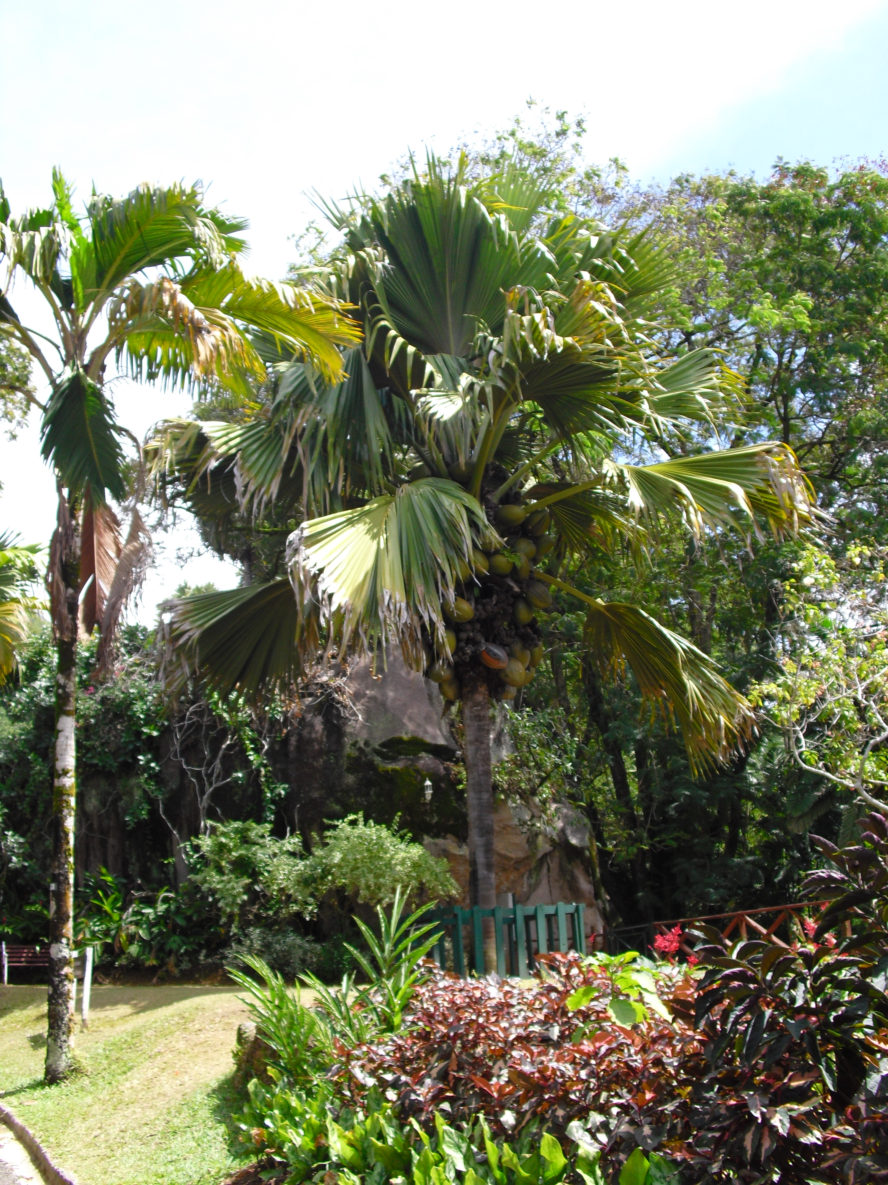 Coco-de-Mer Palmtree planted by the Duke of Edinburgh in 1956